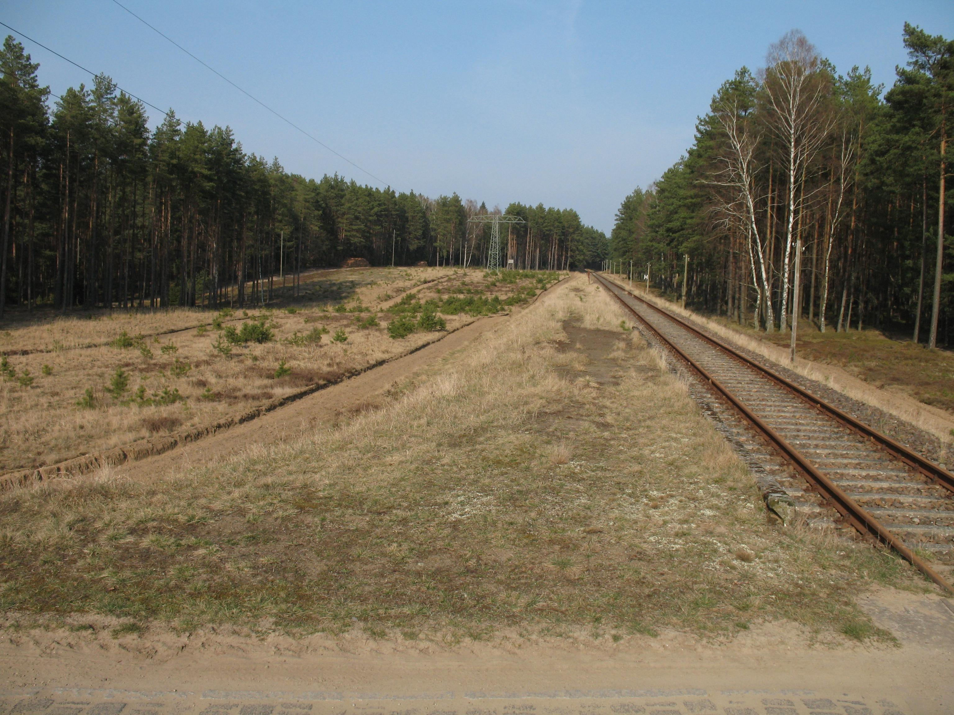 Railway near Rheinsberg-Beerenbusch in Brandenburg, Germany